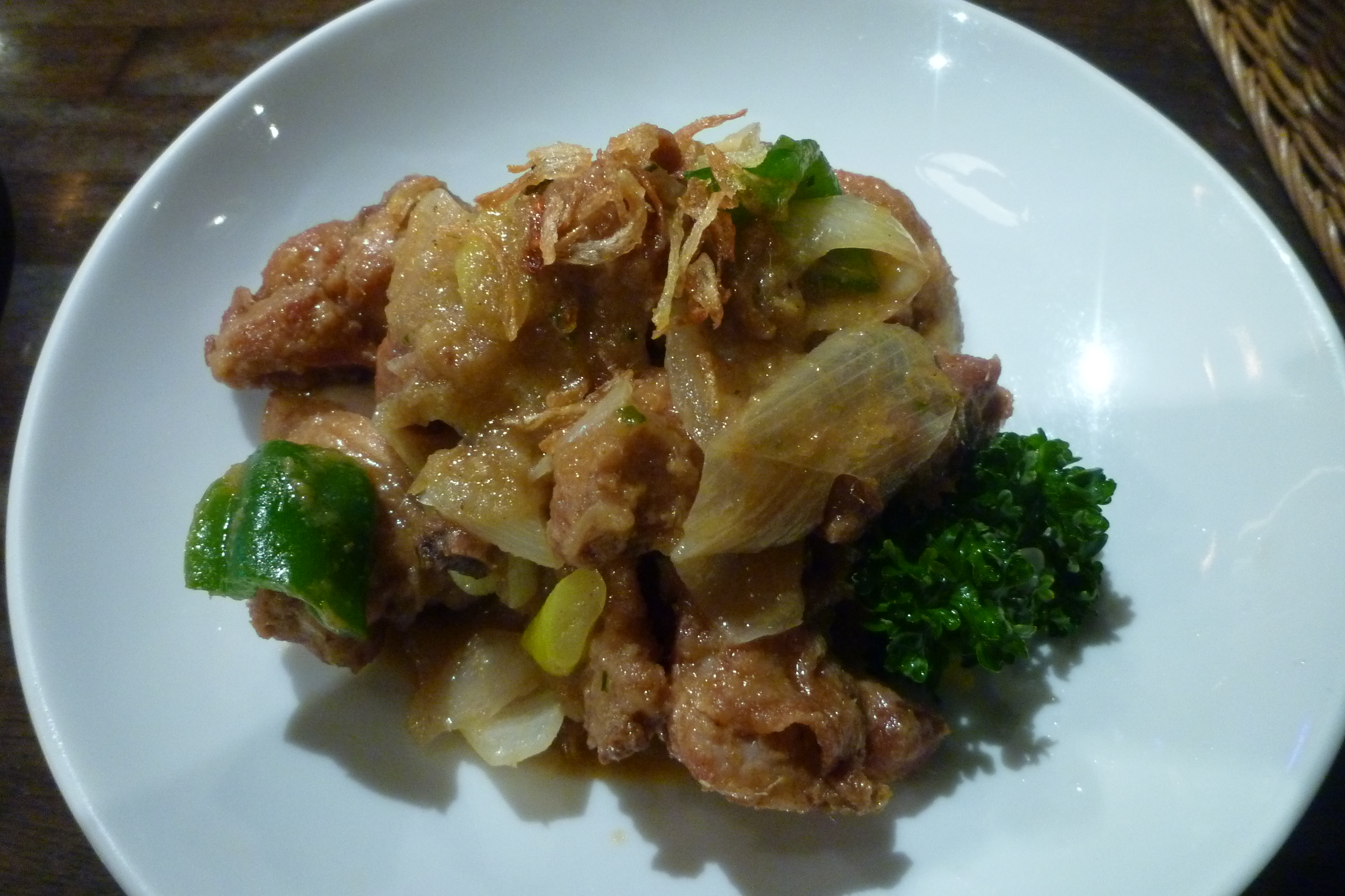 A dish of ayam rica-rica as eaten in an Indonesian restaurant in Yokohama, Japan.